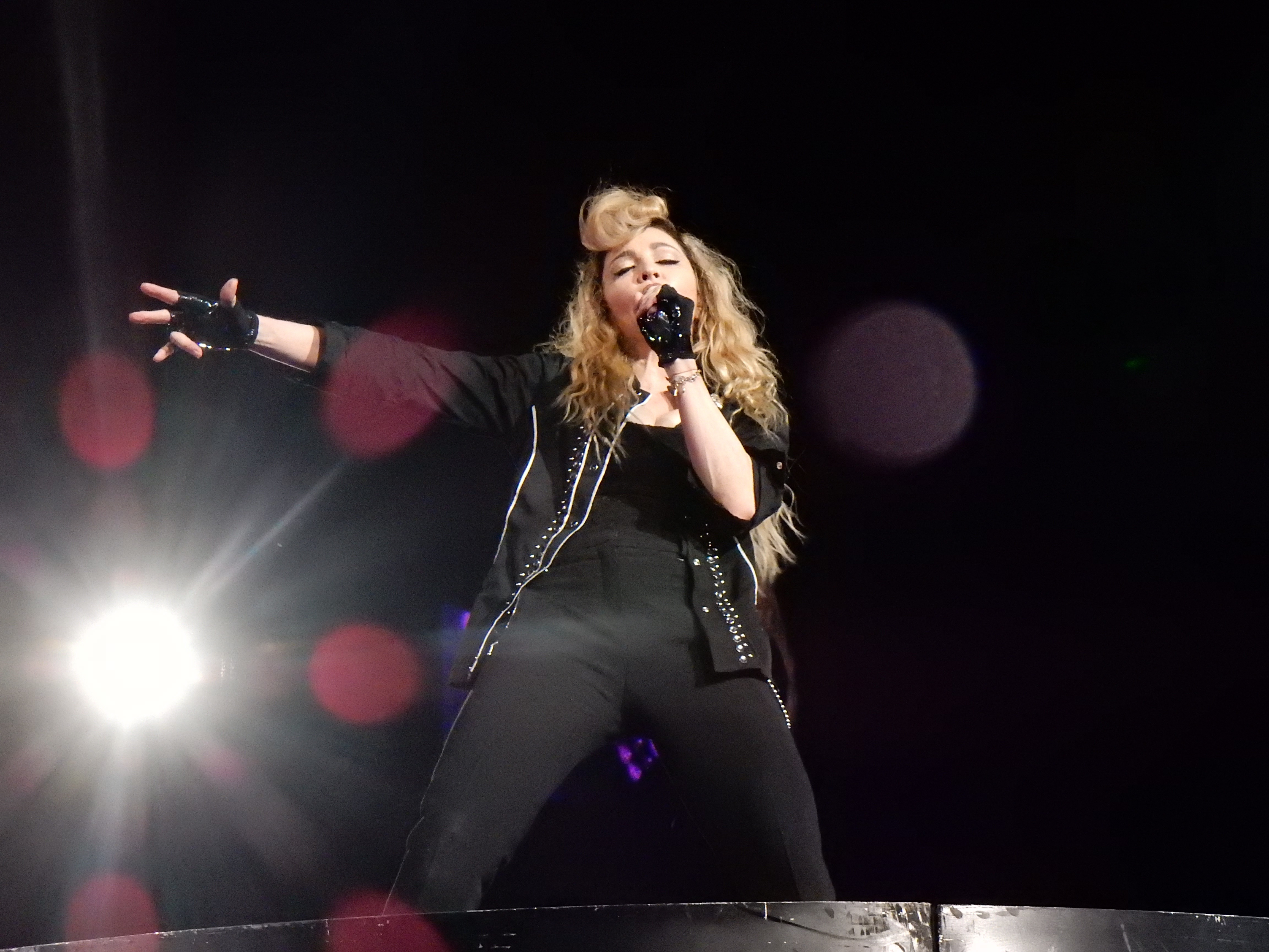 Madonna - Rebel Heart Tour 2015 - Paris 1